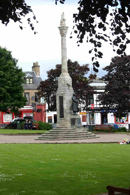 War Memorial Blairgowrie. The War memorial in Blairgowrie. Very close to Eastern edge of the square.